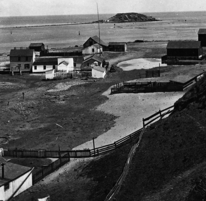 What is now San Pedro in 1873. The old landmark, Deadman's Island is in the background (it was removed in 1928 to expand the harbor).